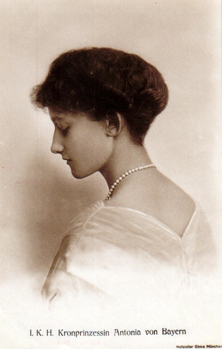 Antonia, Crown Princess of Bavaria (nee Princess of Luxembourg)